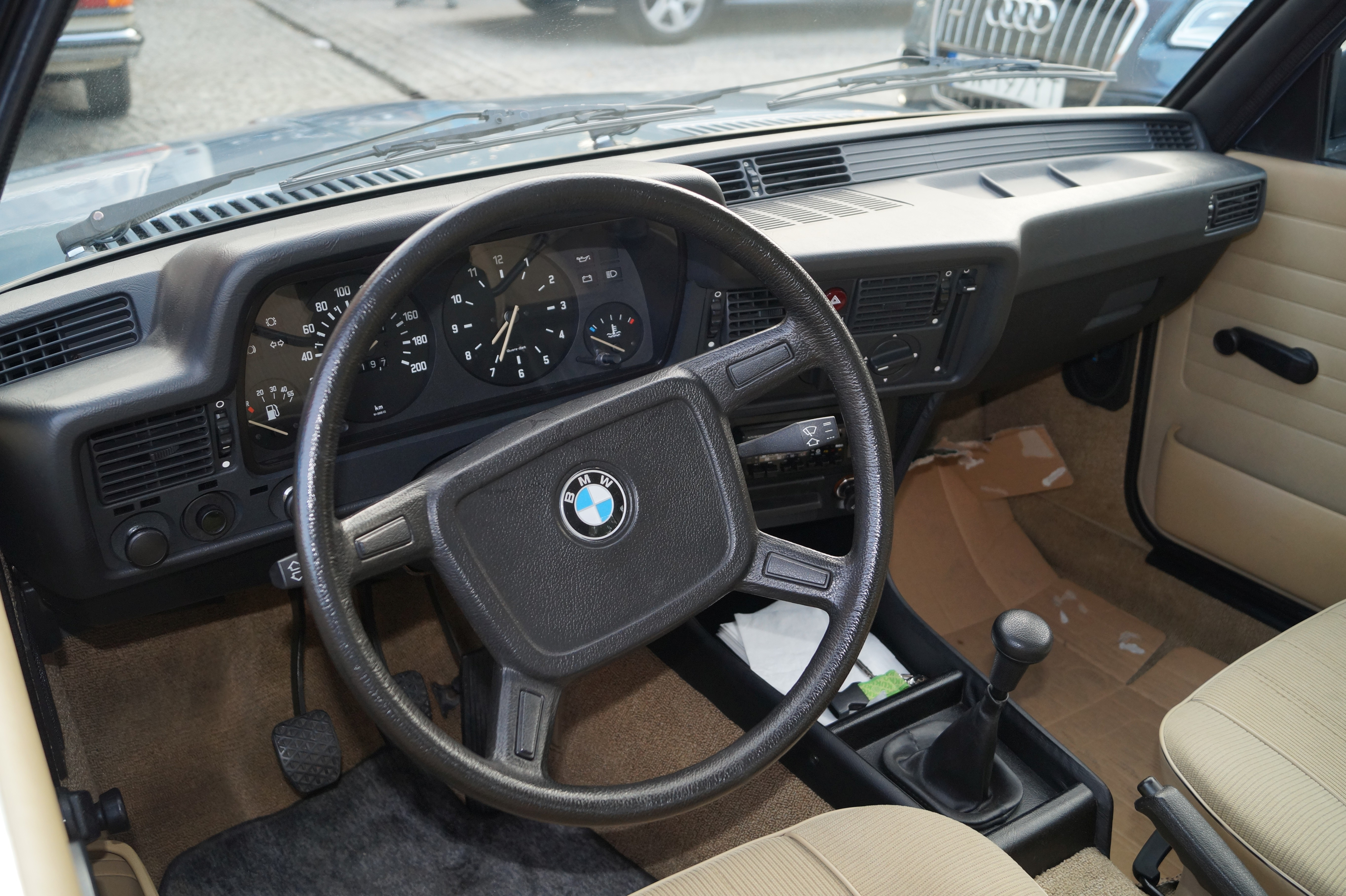 This photo was taken during Automotive Wikiexpedition 2016 set up by Wikimedia Polska Association. You can see all photographs in category Wikiekspedycja motoryzacyjna 2016. English | Polski | +/− Wnętrze auta BMW 316 (model E21) w Muzeum Motoryzacji w Ślęzie